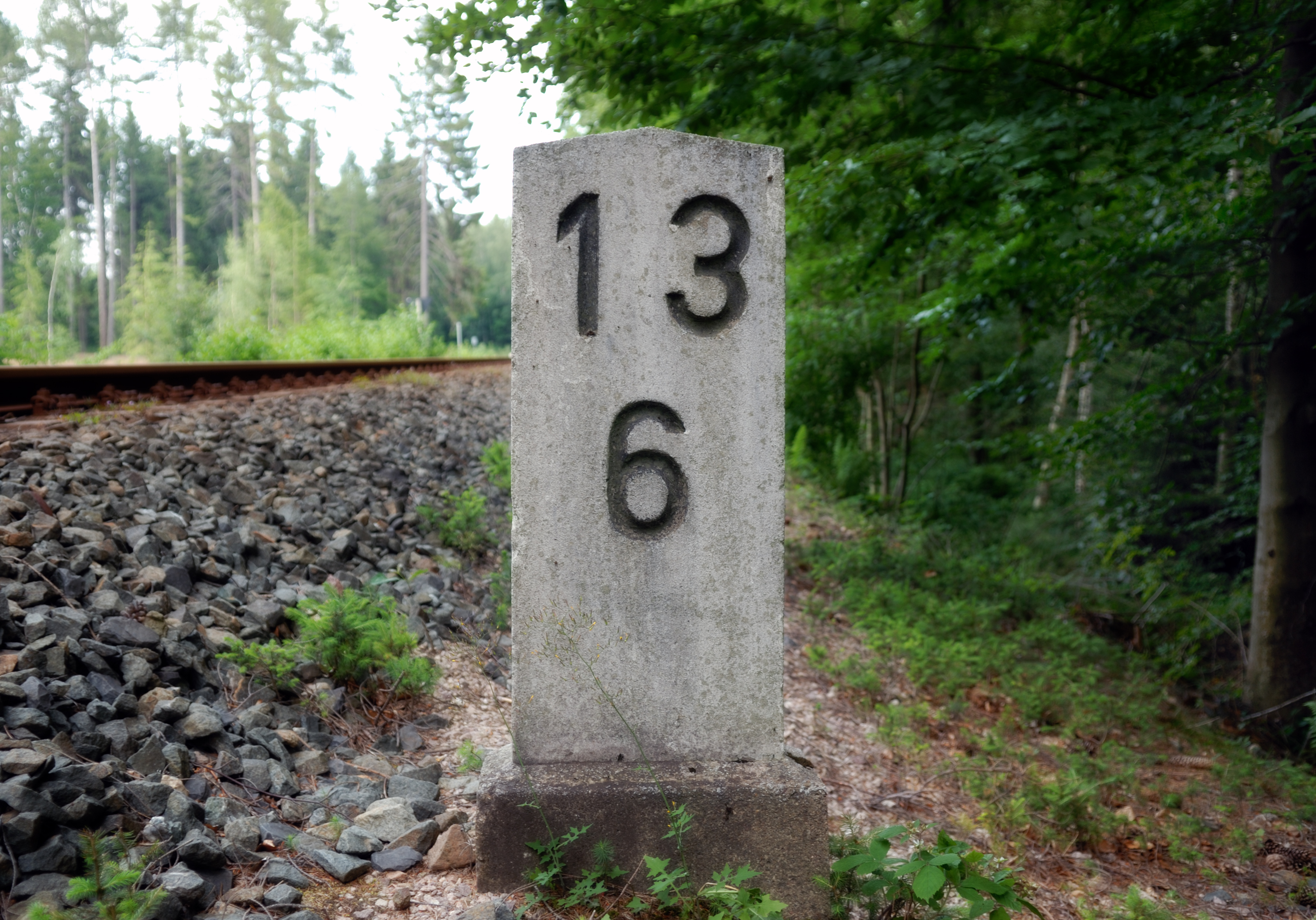 This image shows a milestone of the German Bundesbahn.